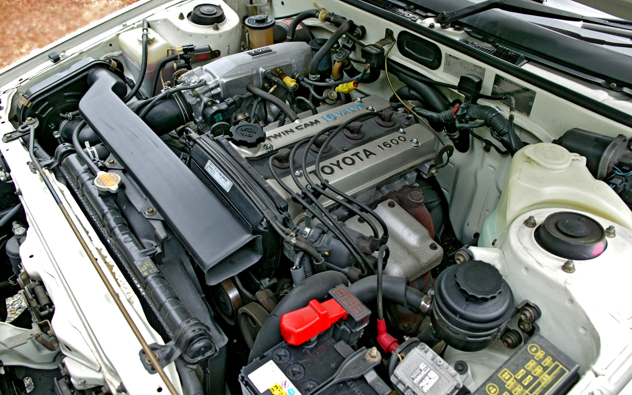 Toyota Corolla Levin, 4A-GE Engine, with T-VIS.